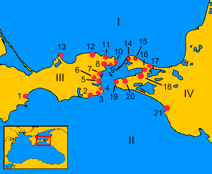 Ancient towns of the south part of Bosporan Kingdom